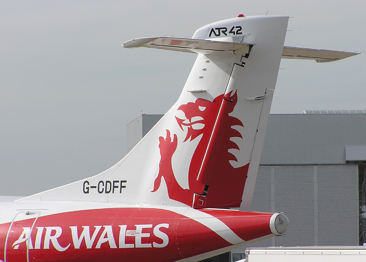 Air Wales ATR 42 (G-CDFF) at Cardiff (Rhoose) Airport, Cardiff, Wales. Taken by Adrian Pingstone in September 2004 and released to the public domain.